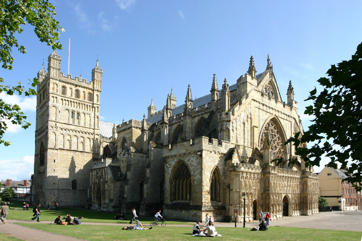 Exeter Cathedral, dedicated to Saint Peter